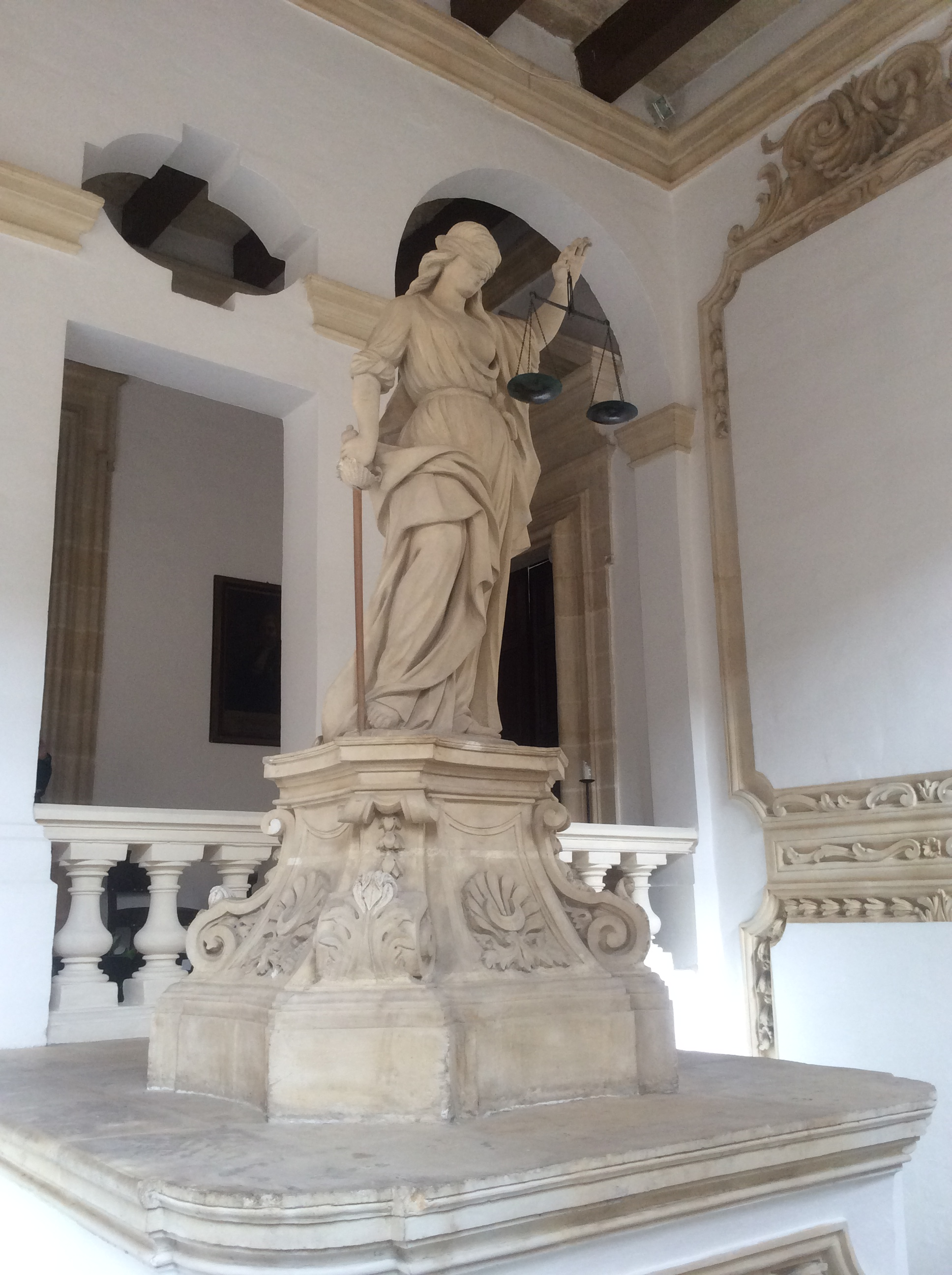 Statue of Justice at the Castellania in Valletta, Malta